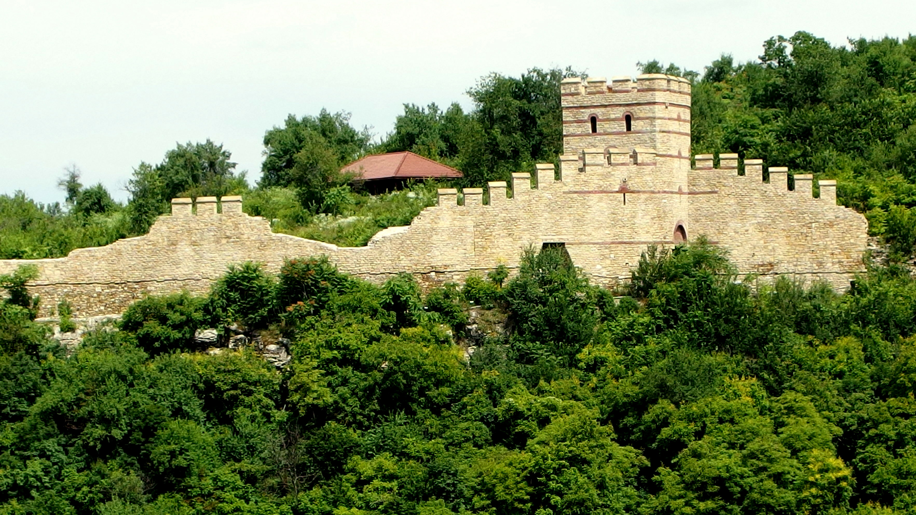 2014-06-21 in Veliko Tarnovo.